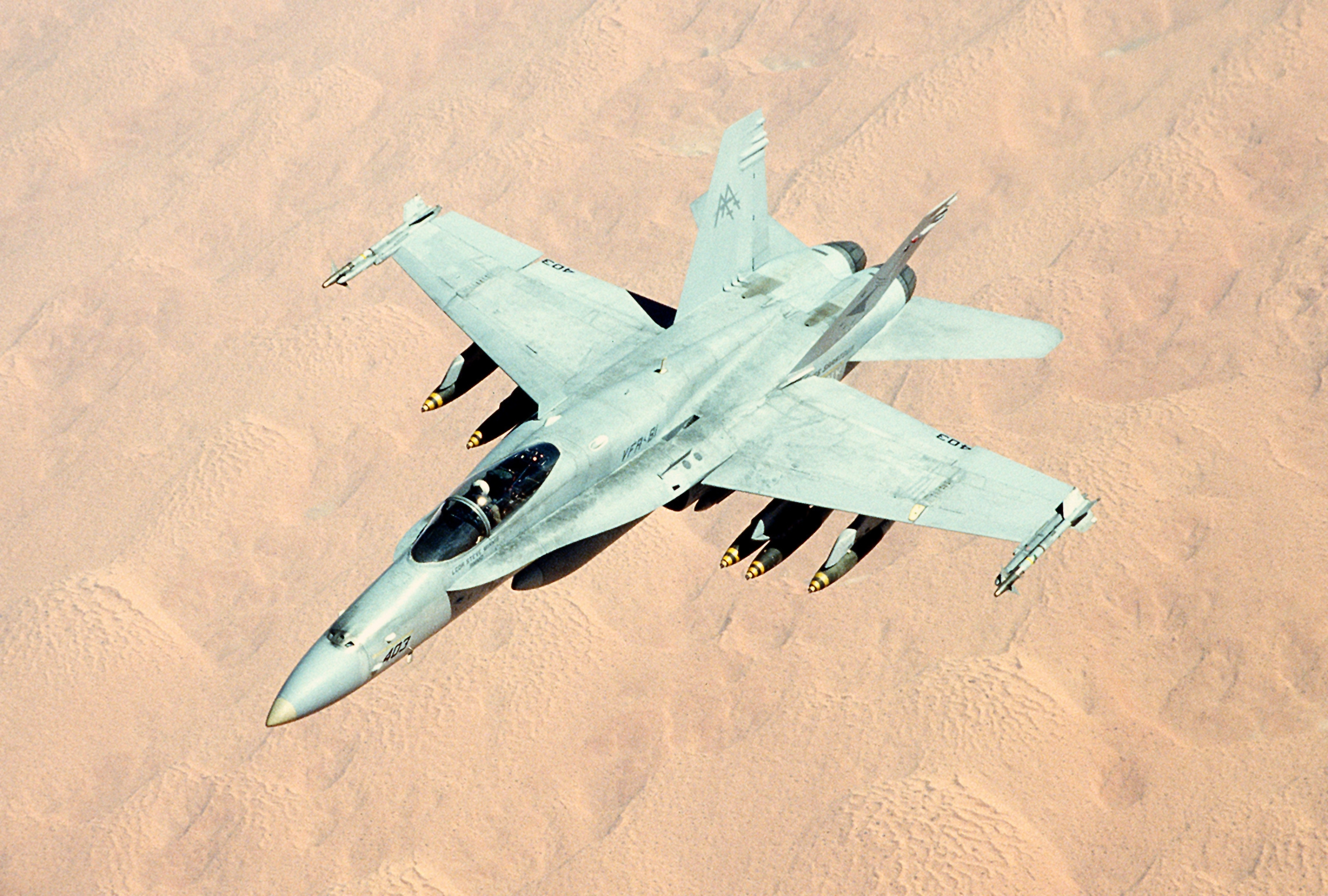 A U.S. Navy McDonnell Douglas F/A-18C-24-MC Hornet (BuNo 163477) from strike fighter squadron VFA-81 Sunliners prepares for refueling from a U.S. Air Force tanker on 4 February 1991 during the 1991 Gulf War. The aircraft is armed with AIM-9L Sidewinder missiles and Mk 83 bombs. VFA-81 was assigned to Carrier Air Wing 17 (CVW-17) aboard the aircraft carrier USS Saratoga (CV-60) for a deployment to the Mediterranean and the Red Sea in support of operations "Desert Shield" and "Desert Storm" from 7 August 1990 to 28 March 1991. 163477 was the second VFA-81 aircraft to receive the tactical number AA-403 on this deployment. The first one, BuNo 163484, had been shot dwon by an Iraqi MiG-25PD on 17 January 1991, the pilot being killed. Three years later the F-18C 163477 later collided with a VF-103 F-14B after launching from USS Saratoga on 12 February 1994. The F-14 crashed, both crew ejecting safely. 163477 landed with a portion of the wing missing and was later repaired.